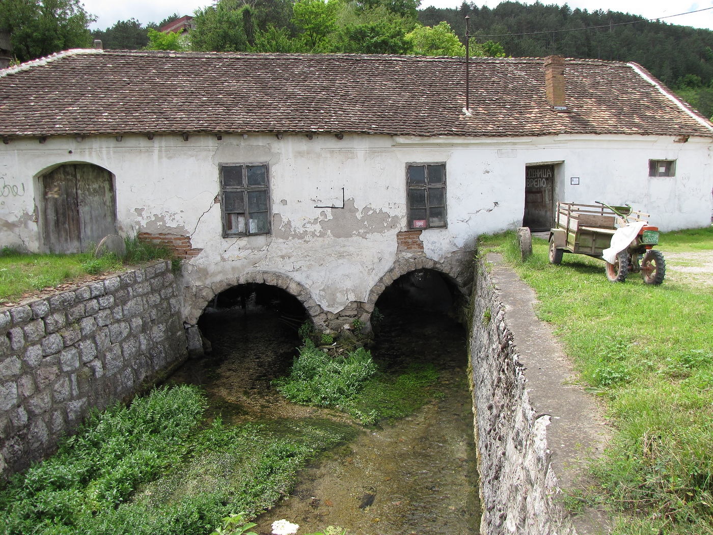 Watermill in Bela Palanka